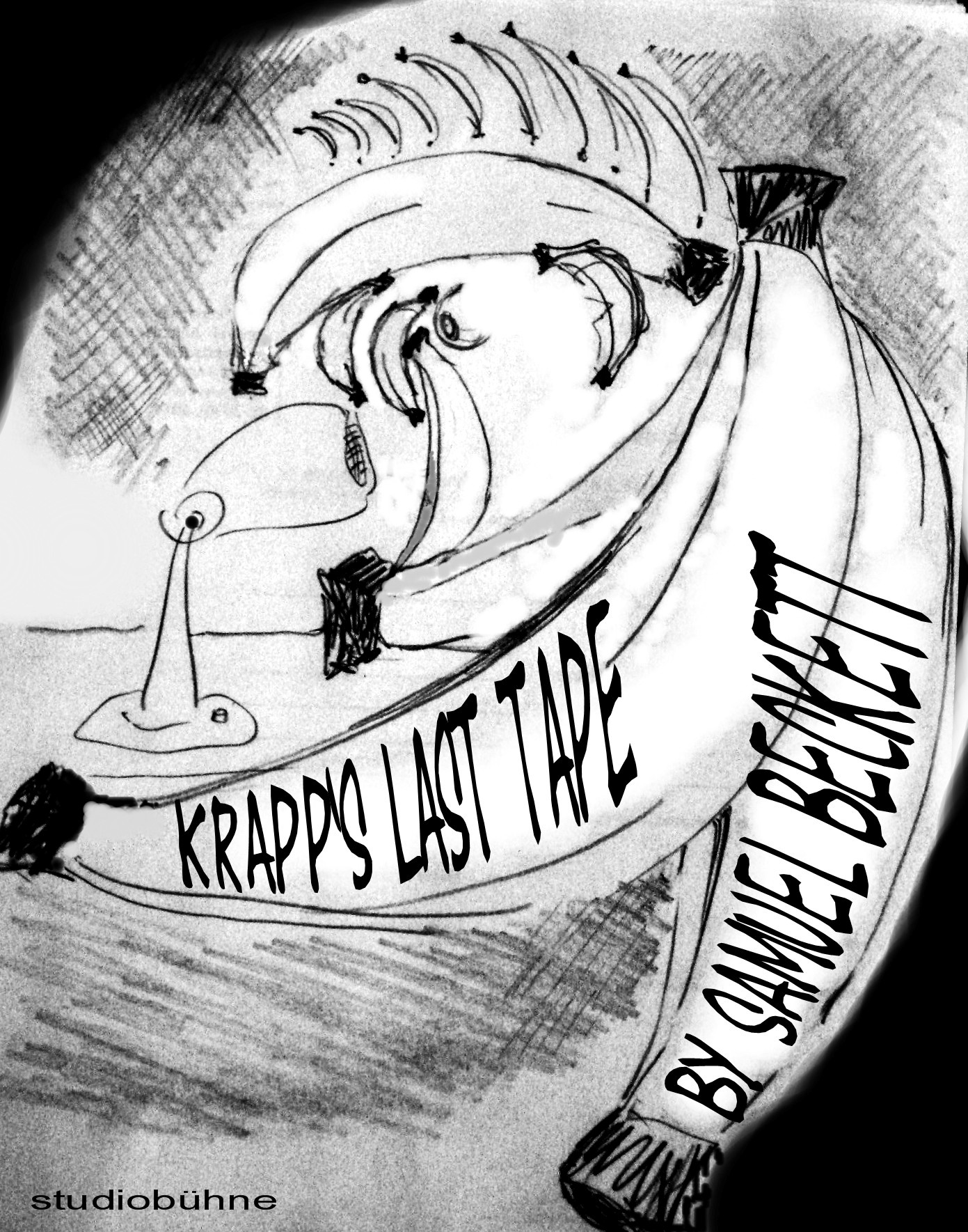 Poster for drama performance of "Krapp's Last Tape"